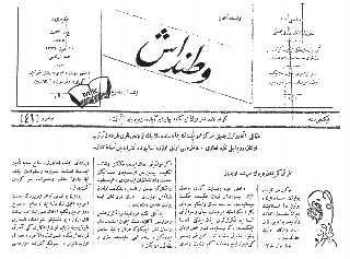 Vatandas Ottoman Newspaper